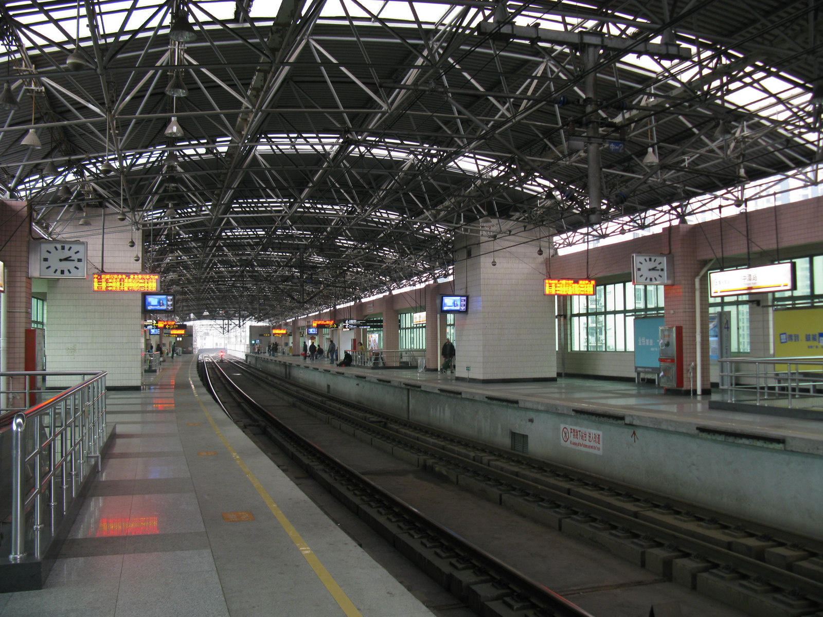 Line 3 & Line 4 Platform of Zhongtan Road Station